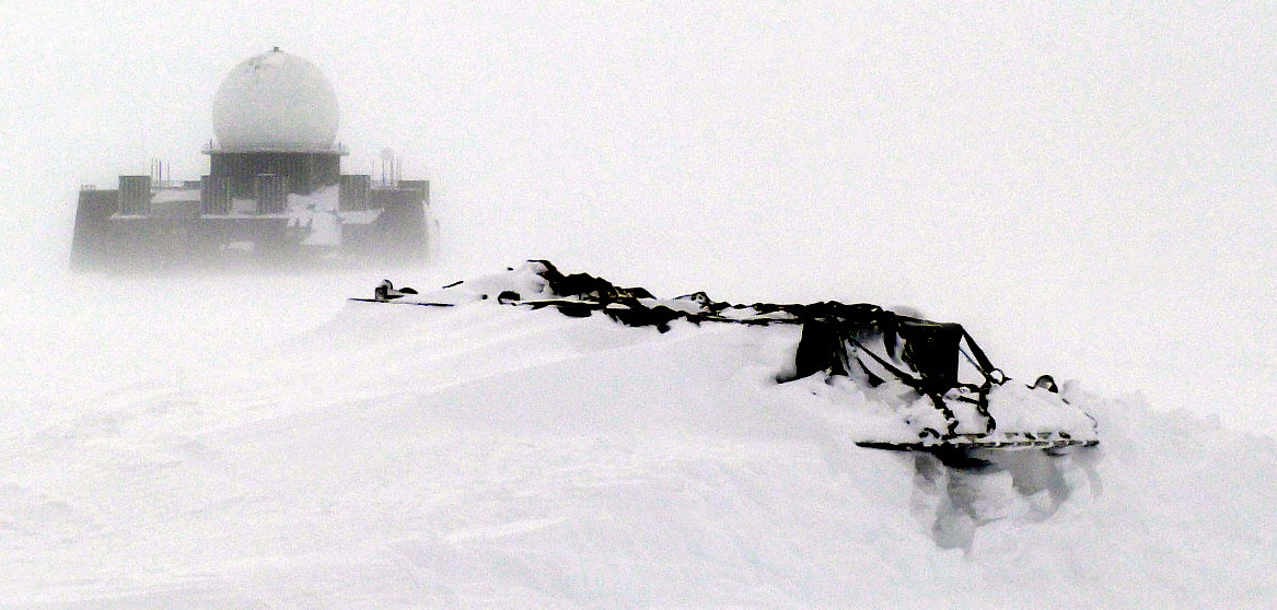 The w:109th Airlift Wing (AW) Arctic Aircraft Recovery School (aka "Kool School") members will recover these snow bound equipment pallets. In the background is an abandoned Early Warning Radar Site, part of the former DEW (Distant Early Warning) system. The school is located on the ice cap of Greenland just three miles from the abandoned DYE-2 site. Original photo is This image or file is a work of a U.S. Air Force Airman or employee, taken or made as part of that person's official duties. As a work of the U.S. federal government, the image or file is in the public domain in the United States. Location: Kangerlussuaq, west Greenland